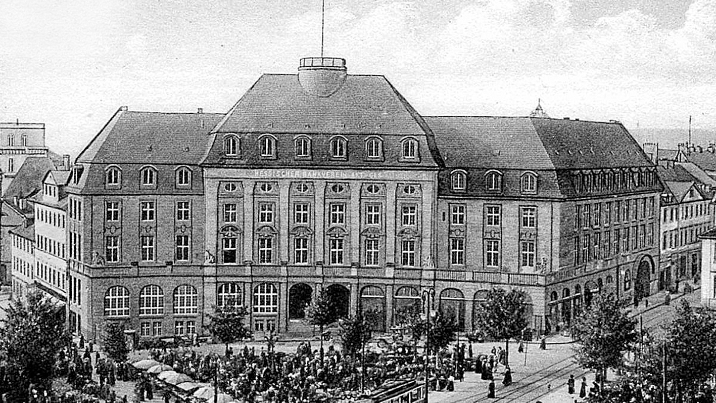 Königsplatz (Kings square) in Kassel with the bank Hessischer Bankverein which was taken over by Commerzbank in 1922